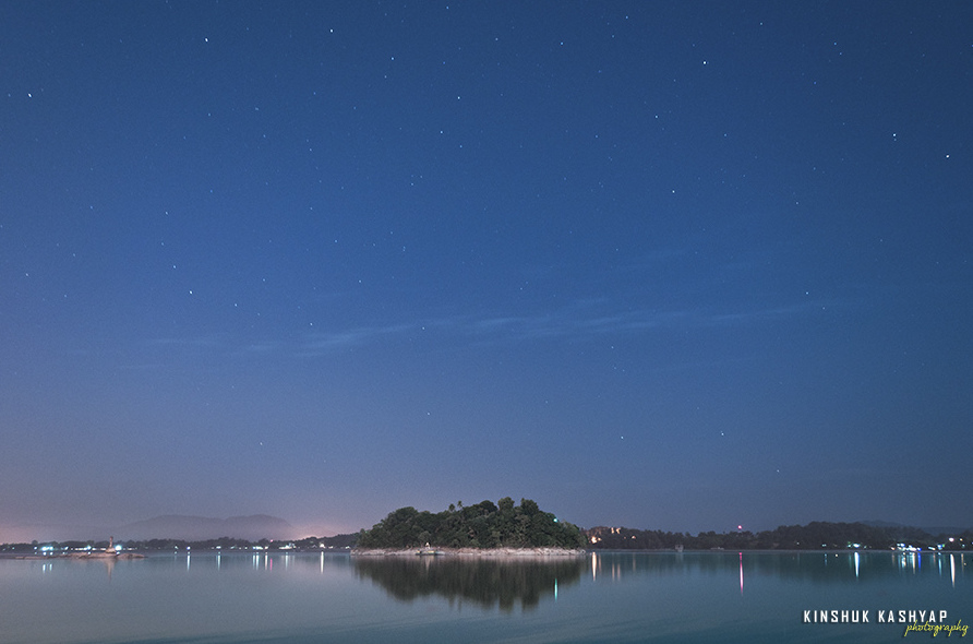 Umananda Island (from Assamese Uma, another name for the Hindu goddess Parvati, the wife of Shiva; and ananda, "happiness") is the smallest river island in the midst of river Brahmaputra flowing through the city of Guwahati in Assam, a state in northeast India. The British named the island Peacock Island for its shape.